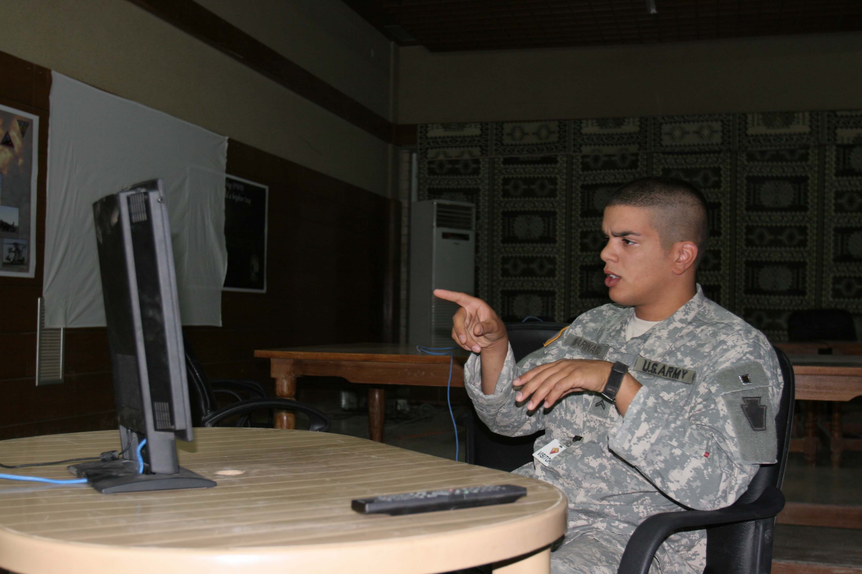 Army Cpl. Derek A. Marinaro, a team leader with the 109th Mechanized Infantry, uses sign language to communicate with his parents during a video teleconferencing session. Marinaro's parents are deaf, and his inability to talk with them over phone made this the first time he had communicated with his parents since he arrived in Iraq six weeks ago. The video teleconference was made possible by the Freedom Calls Foundation, a nonprofit organization dedicated to promoting better communication between deployed service members and their loved ones.